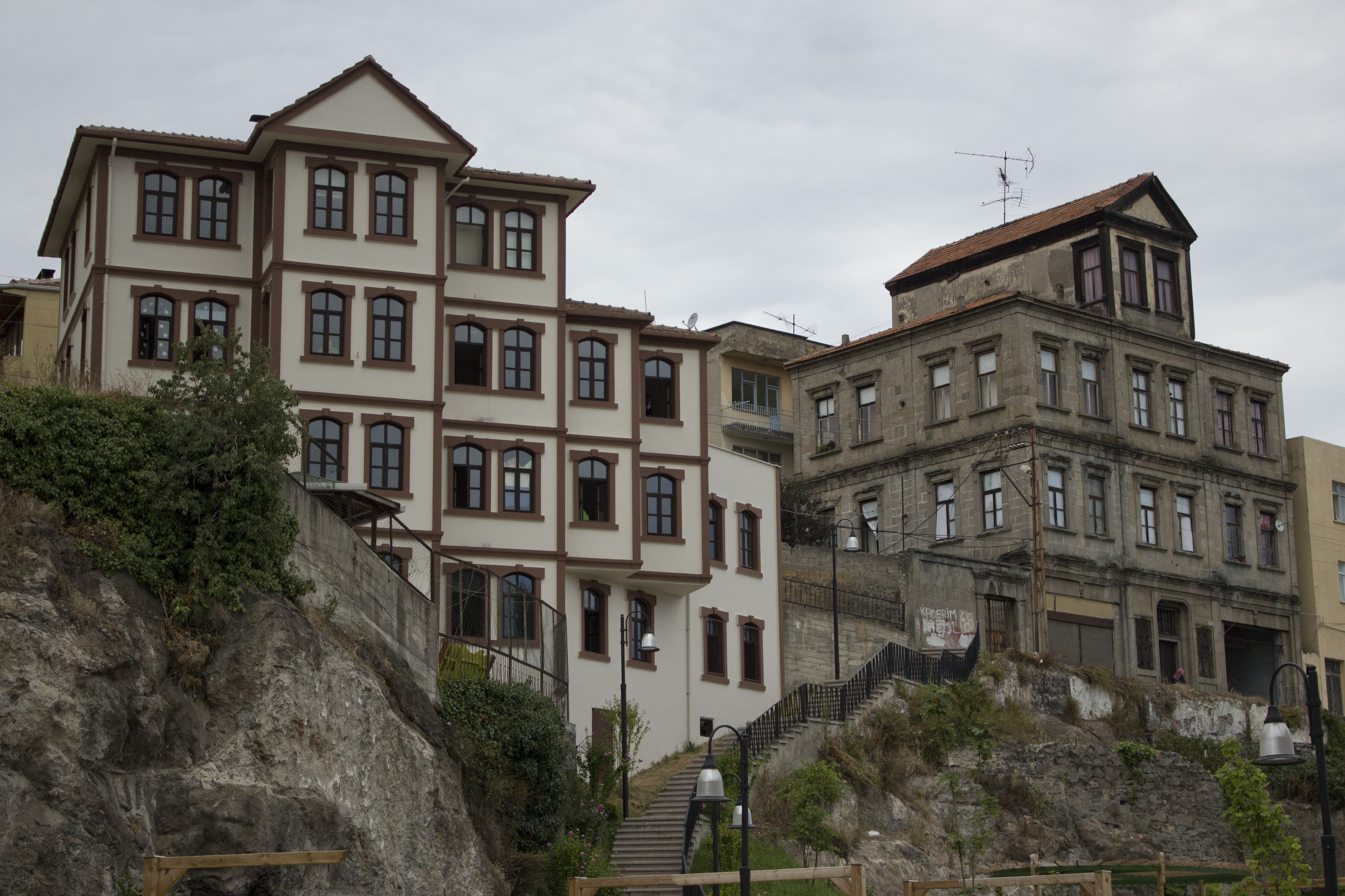 Two historical buildings in the center of Trabzon